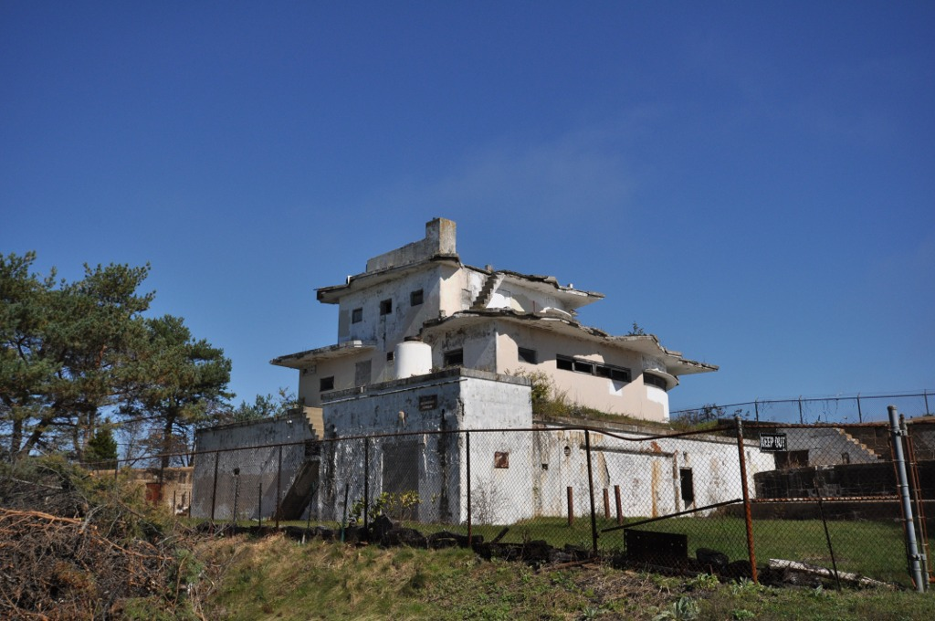 Fort Stark, New Castle, New Hampshire. Main tower, with warning signs. Built in WWII as a harbor entrance control post, disguised as a seaside mansion.